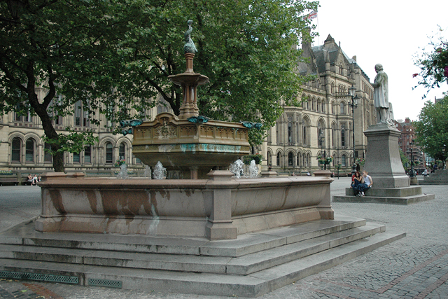 The fountain, erected for the Diamond Jubilee of Queen Victoria, 1897, in Albert Square, Manchester. Category:Images of Manchester